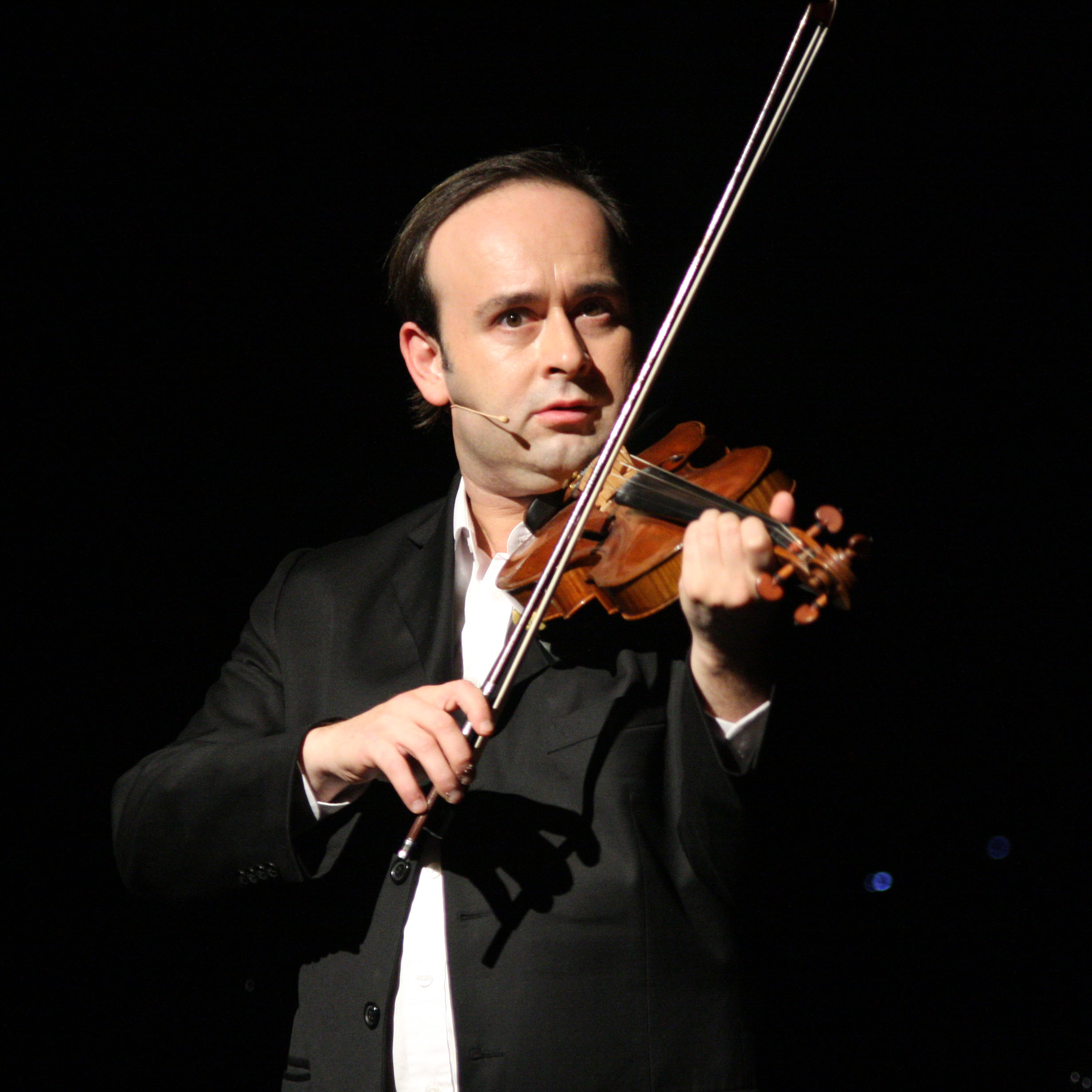 Aleksey Igudesman in Theaterhaus Stuttgart, Germany